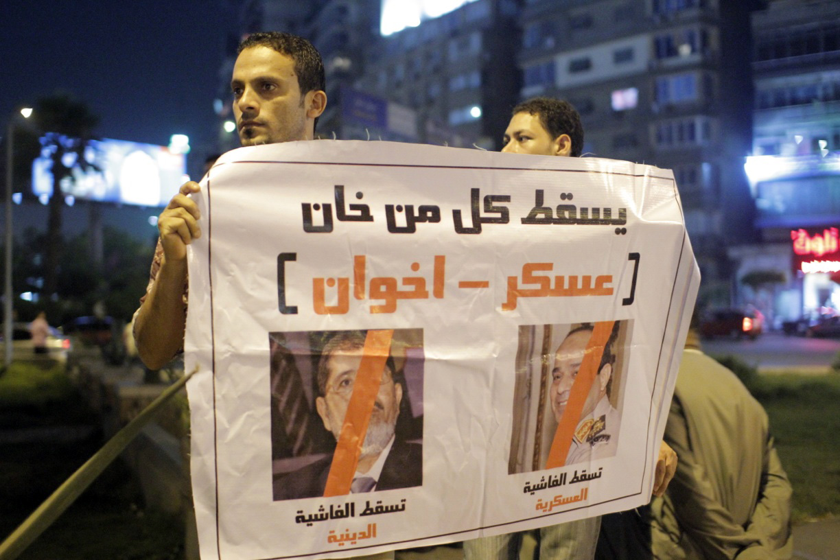 Original description: "Neither Morsi nor the military: Egypt's Third Square Movement seeks an alternative vision for the future. (Hamada Elrasam for VOA)"